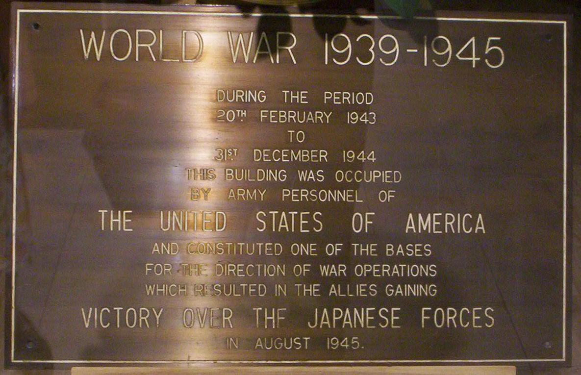 T & G Building, Brisbane Commemorative plaque